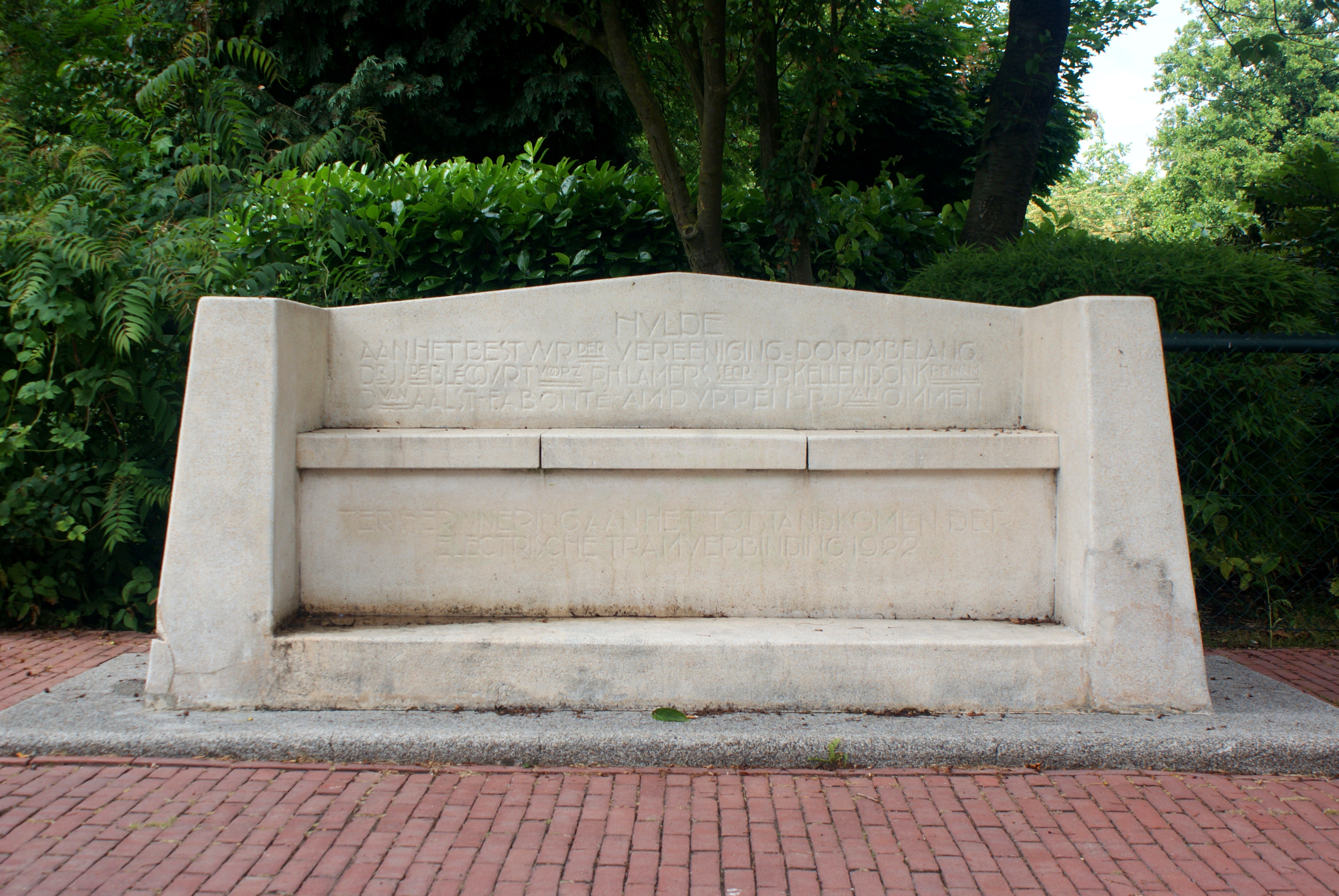 Hees Monument in the form of a stone bench, erected to commemorate the establishment of the Hees-Nijmegen tram connection, 1922